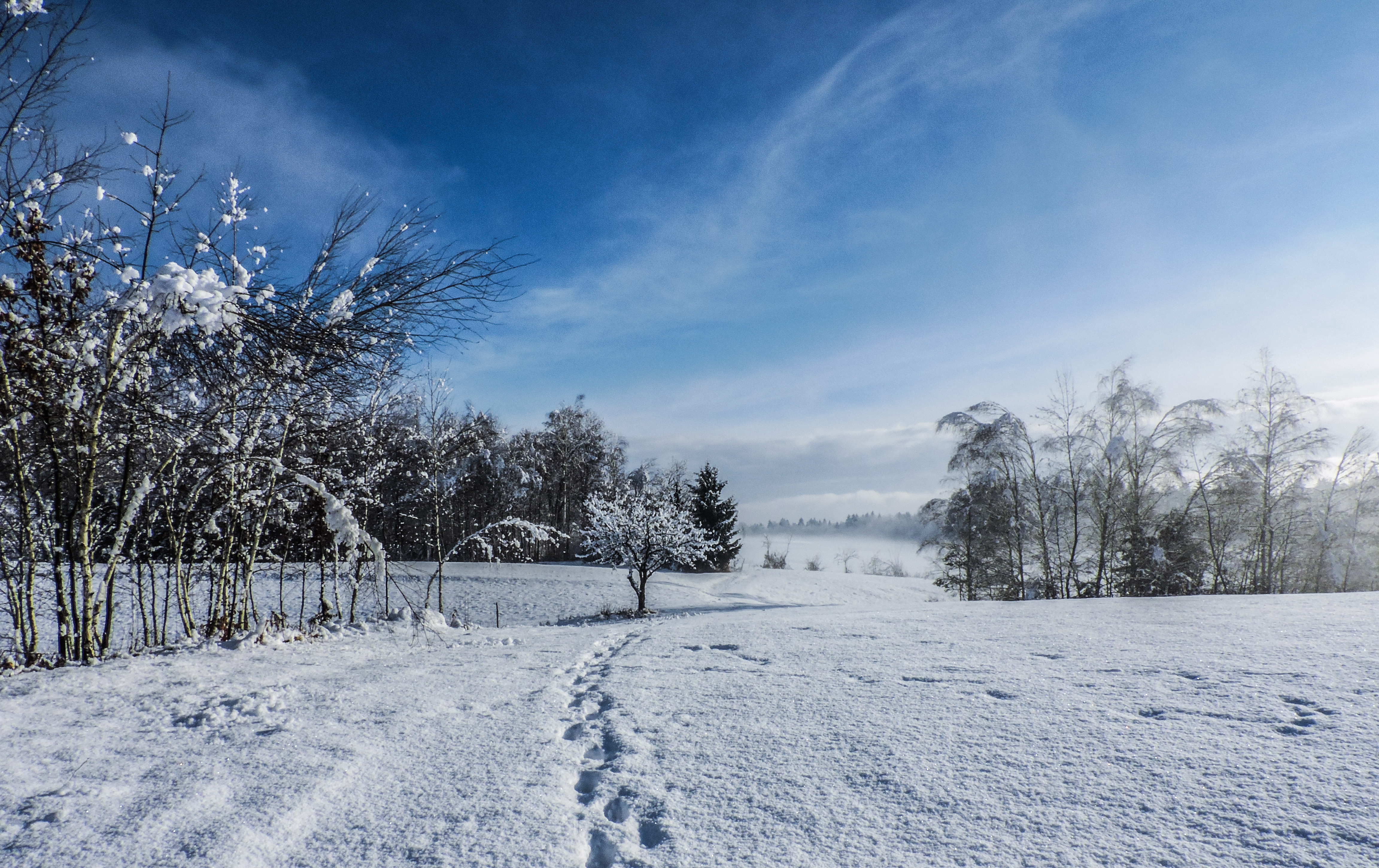 Cold morning walks